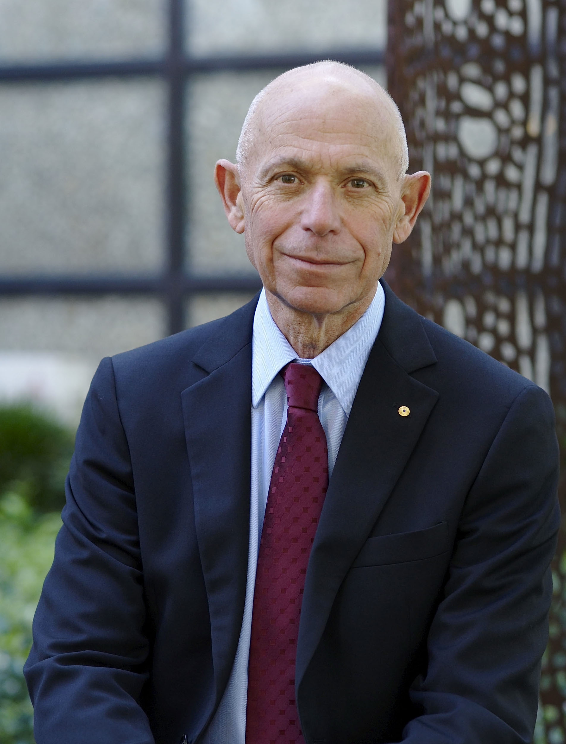 University of New South Wales Vice-Chancellor Fred Hilmer sitting in the grounds of the university.